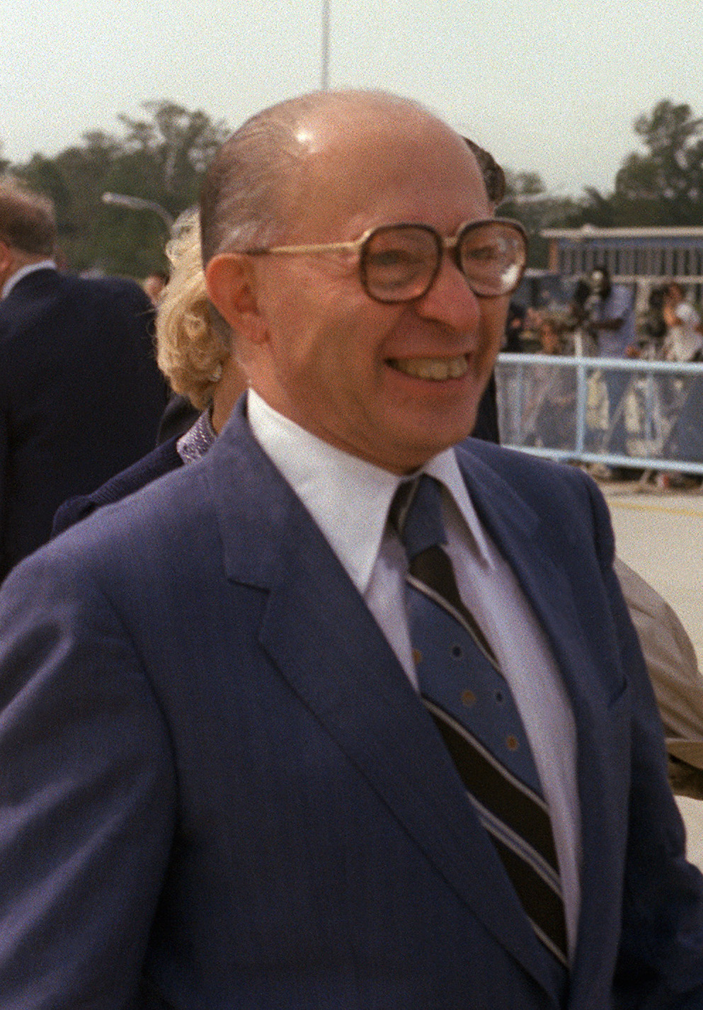 Menachem Begin 1981